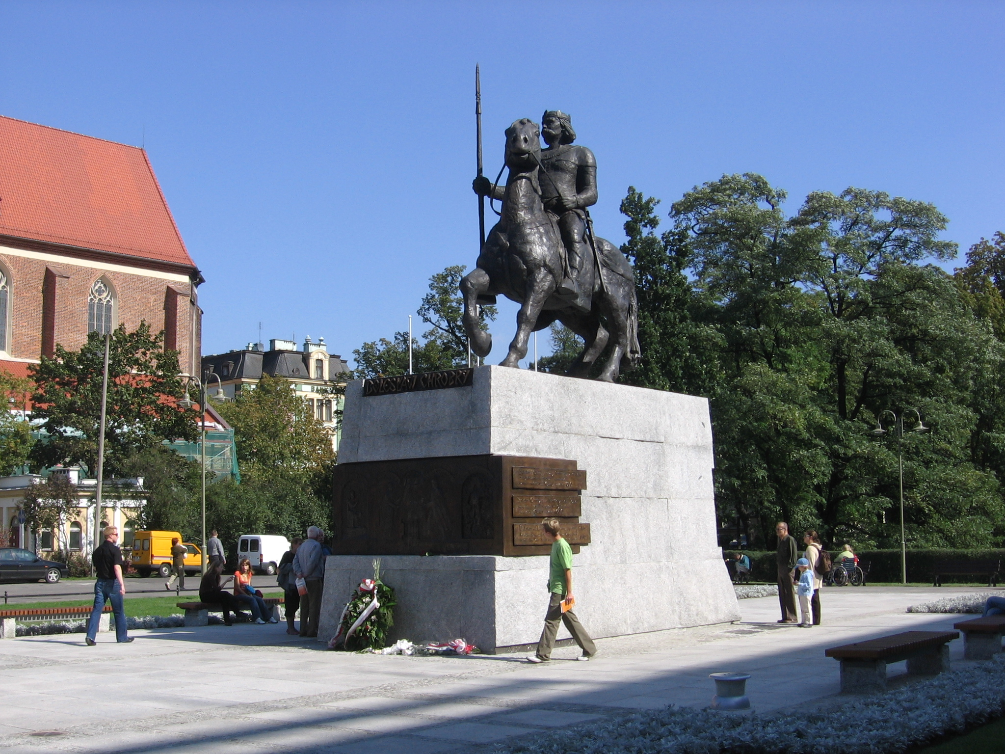 Boleslaus I of Poland, monument in Wrocław